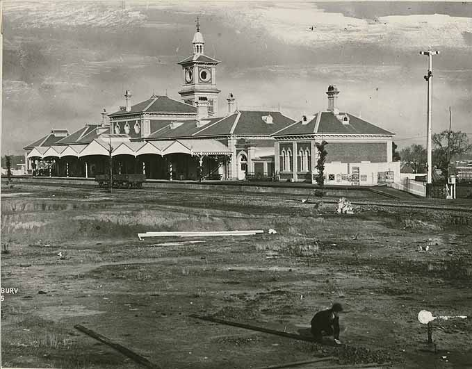 Albury Railway Station Dated: c. 31/12/1881 Digital ID: 17420_a014_a014000614 Rights: We'd love to hear from you if you use our photos. Many other photos in our collection are available to view and browse on our website using Photo Investigator .